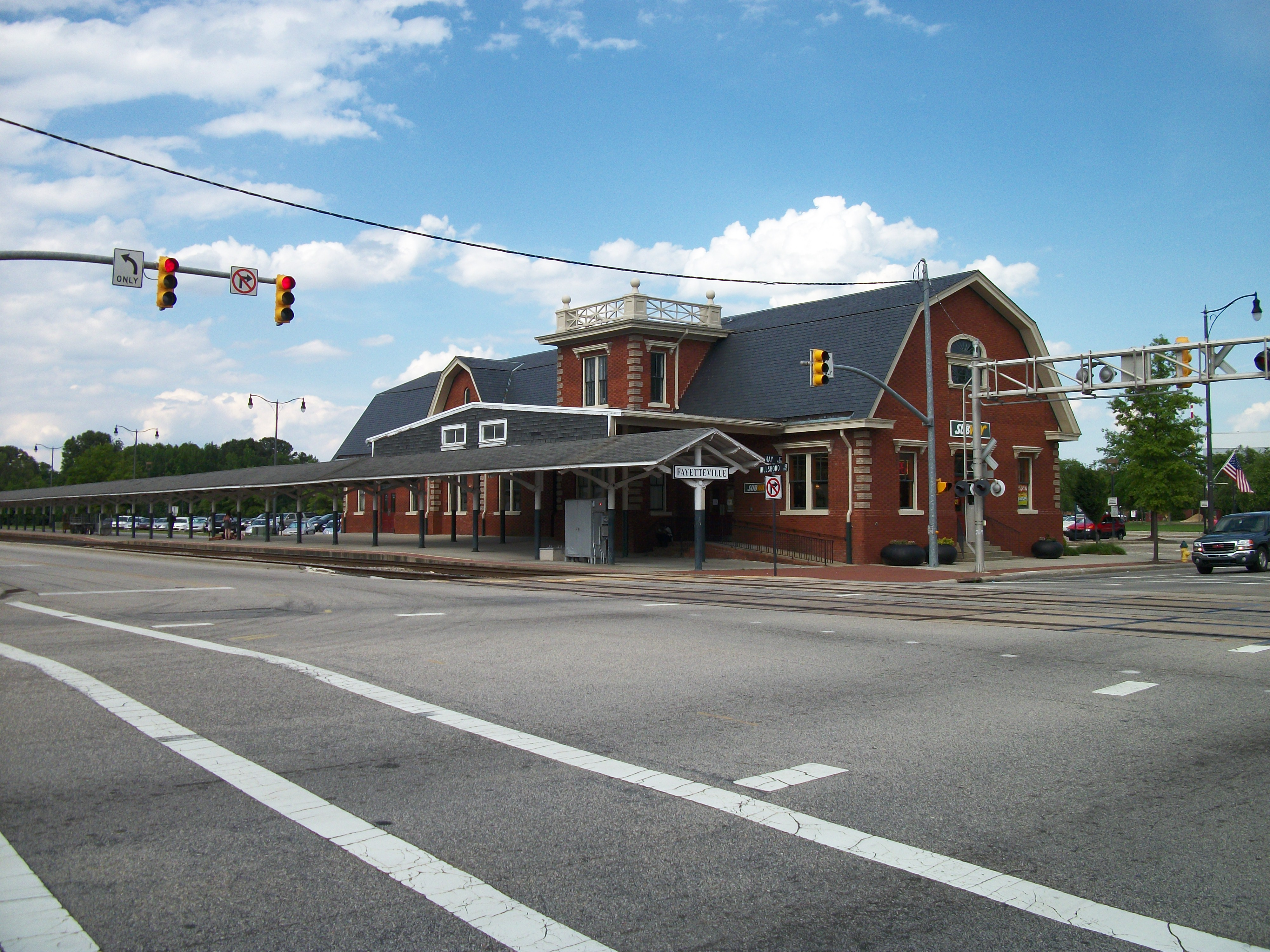 View of the historic Fayetteville (Amtrak station) from the corner of Hay Street and Winslow Street in Fayetteville, North Carolina. A former Atlantic Coast Line Railroad station listed on the National Register of Historic Places, and used also as a Subway sub-shop.